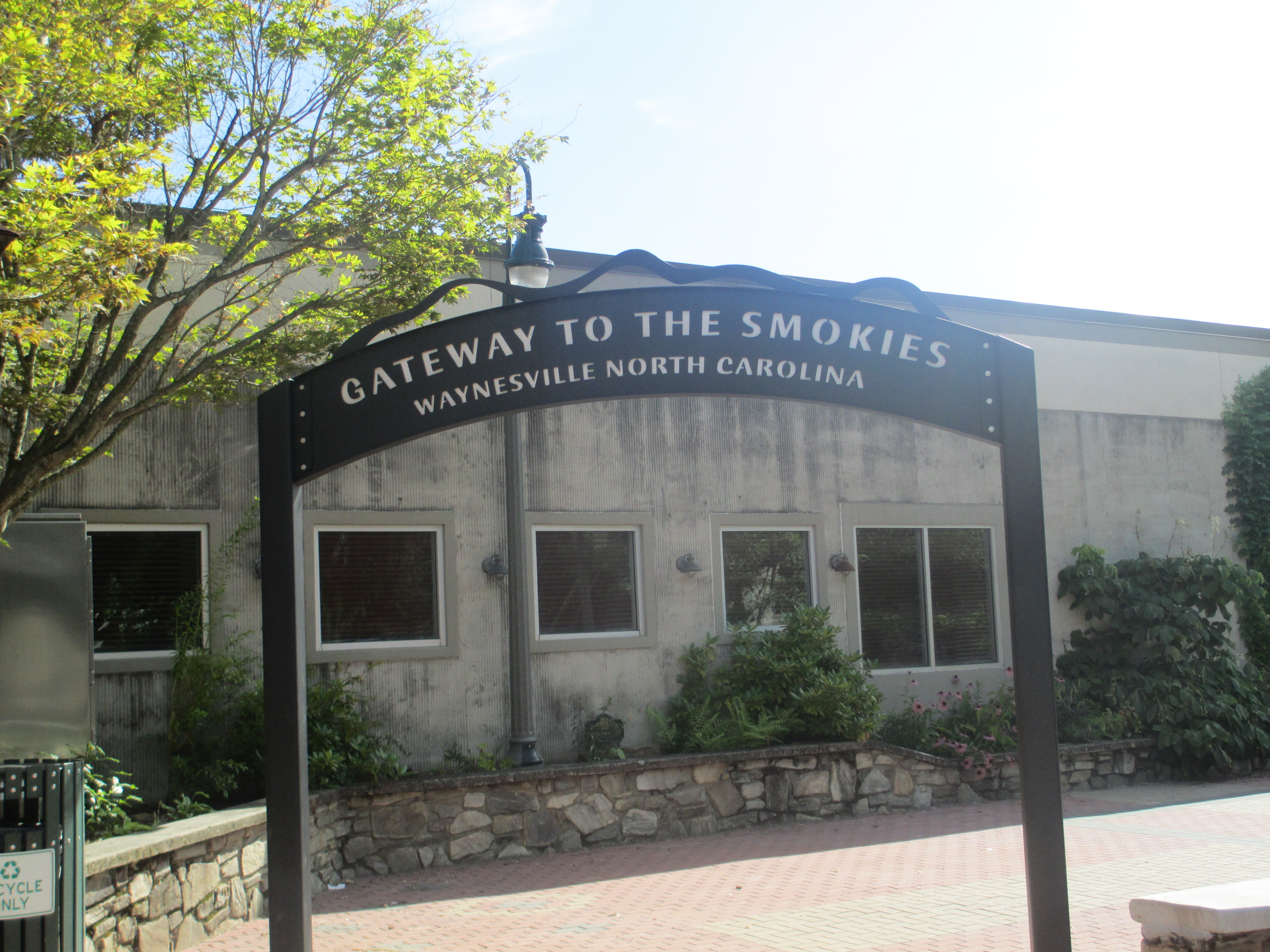 I took photo with Canon camera in Waynesville, NC.